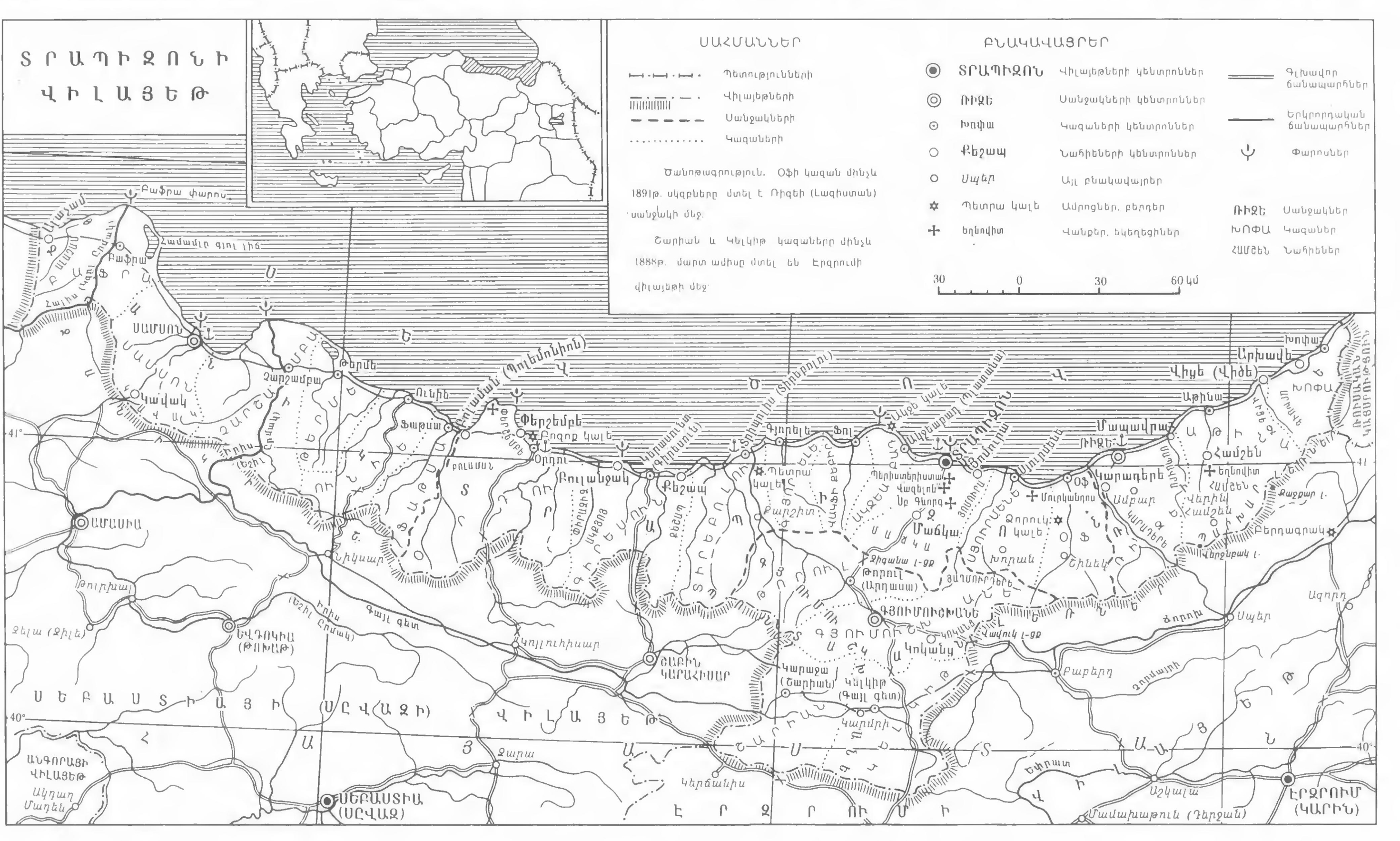 Trapizon vilayet map in Armenian language